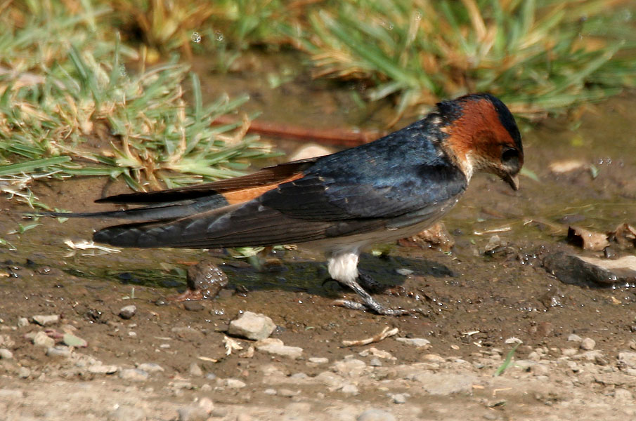 Red-rumped Swallow Cecropis daurica in Parli, Maharashtra, India.